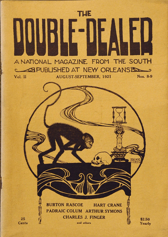 Cover of the August-September 1921 edition of the Double-Dealer, A National Magazine from the South. Digitized by the Historic New Orleans Collection.